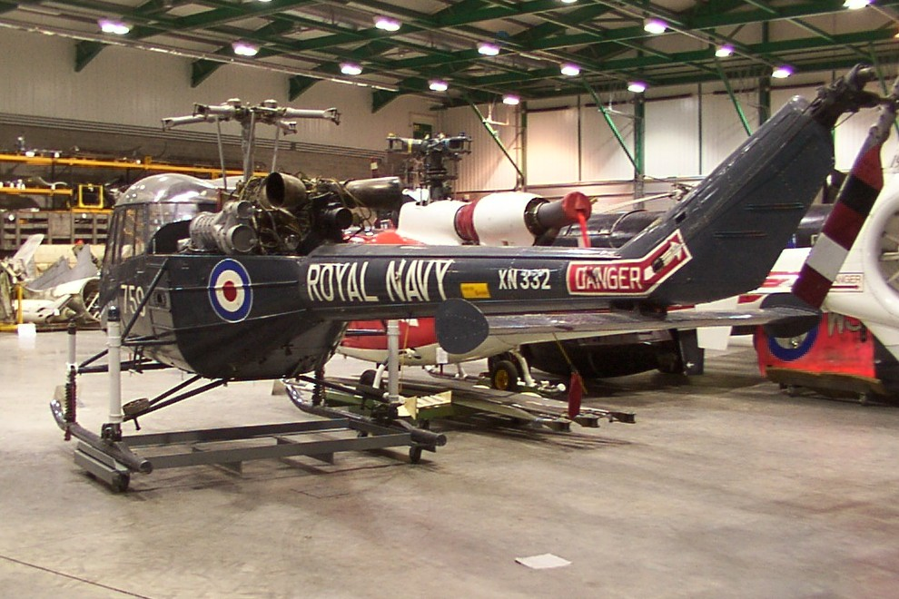 Saro P.531 serial number XN332 at the Fleet Air Arm Museum storage facility Cobham Hall at RNAS Yeovilton, Somerset, England. The P.531 was the prototype of both the Westland Scout and Westland Wasp